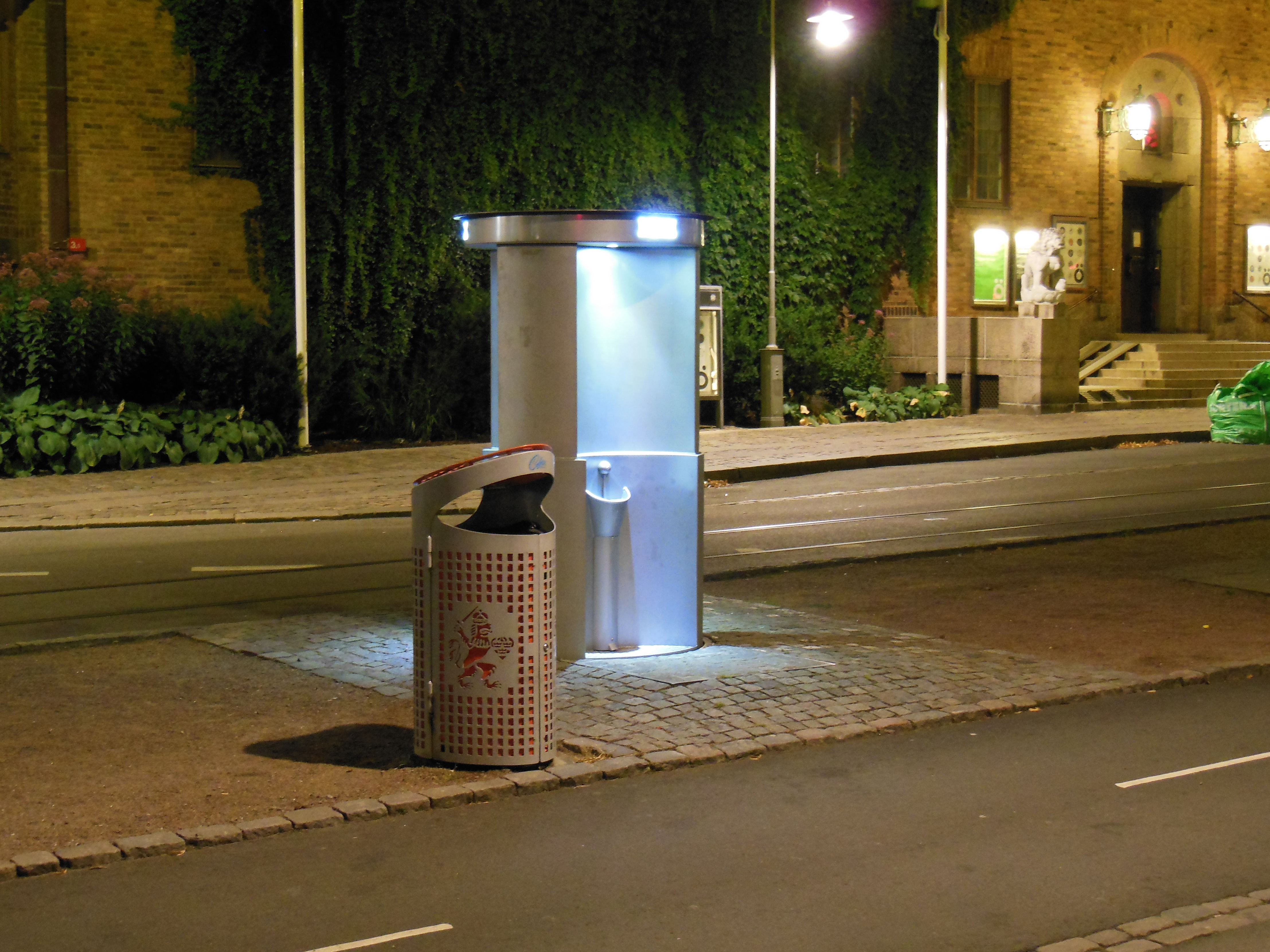 Urilift by Valand in Gothenburg, Sweden.